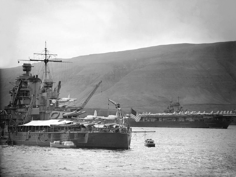 The U.S. Navy battleship USS Idaho (BB-42) and the aircraft carrier USS Wasp (CV-7) anchored at Hvalfjörður, Iceland, in October 1941.